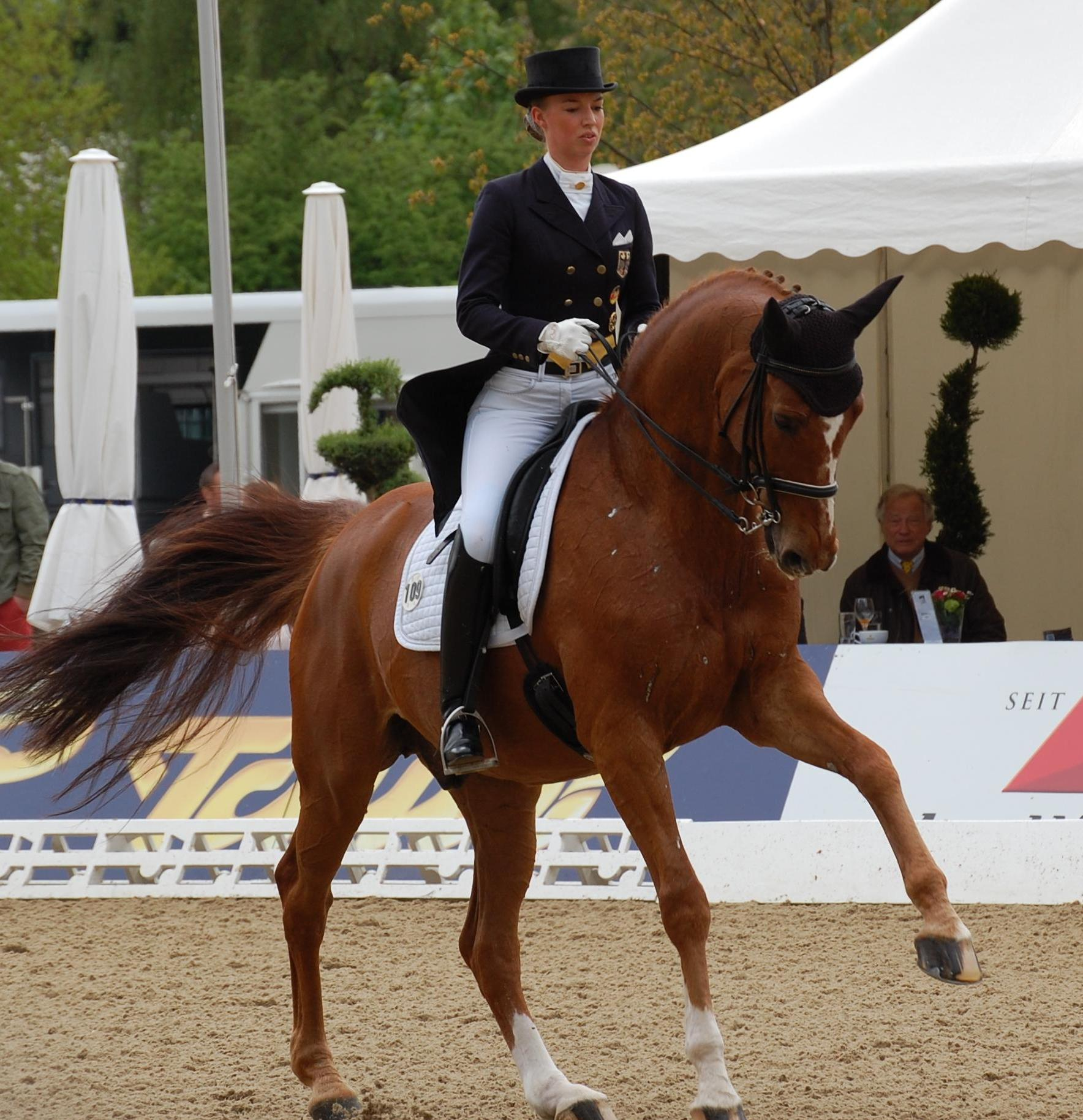 Fabienne Lütkemeier and her horse Qui Vincit Dynamis, 55th German dressage derby, a dressage competition with a horse change. Hamburg 2015.